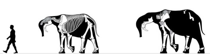 P. bavaricum NHMW2000-z0047/0001(Franzensbad; left) sex female? age adult size group – humerus 790* femur 1055 pelvis 1200 247 cm • 3.1 t P. bavaricum Unterzolling (right) sex male age adult size group – humerus 890e femur – pelvis – 278 cm • ~4.3 t All the skeletal restorations are presented on the same scale (1/100). The human figure is 180 cm tall. Mass estimates are in kilograms for small proboscideans and in tonnes for the larger forms. Shoulder heights are in cm. The age (years), sex, size group, femur and humerus greatest length (mm) (in the case of * it refers to the humerus articular length in mm) and pelvis breadth (mm) are included.